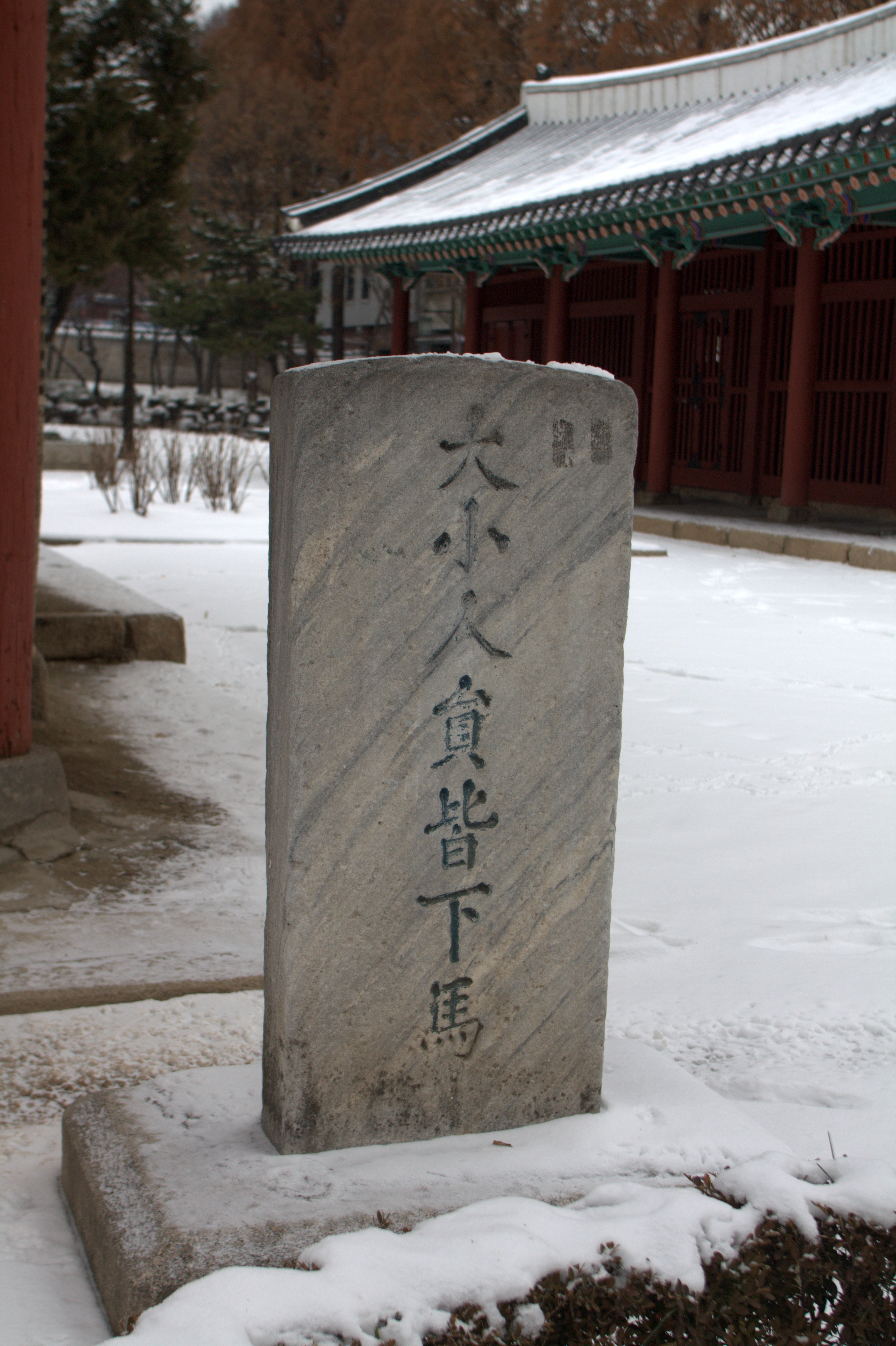 關羽 Ancestral hall in Seoul, Korea